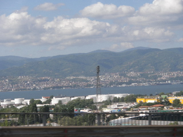 A view of Izmit Gulf